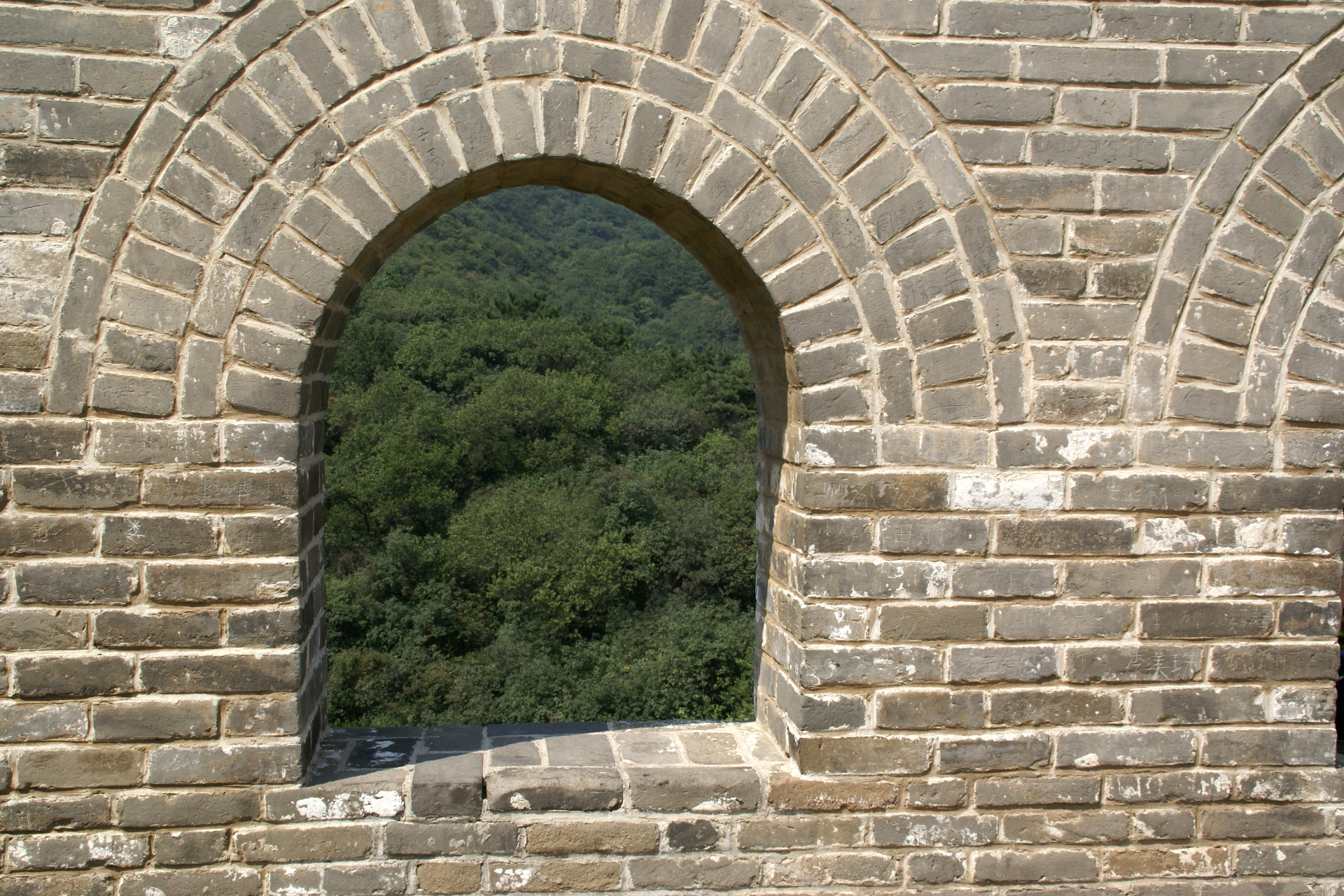 Great Wall - Badaling, 19.8.2014